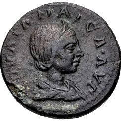 Obversee of a Thessalonican coin depicting Julia Maesa, matriarch of the Severan dynasty of ancient Rome.